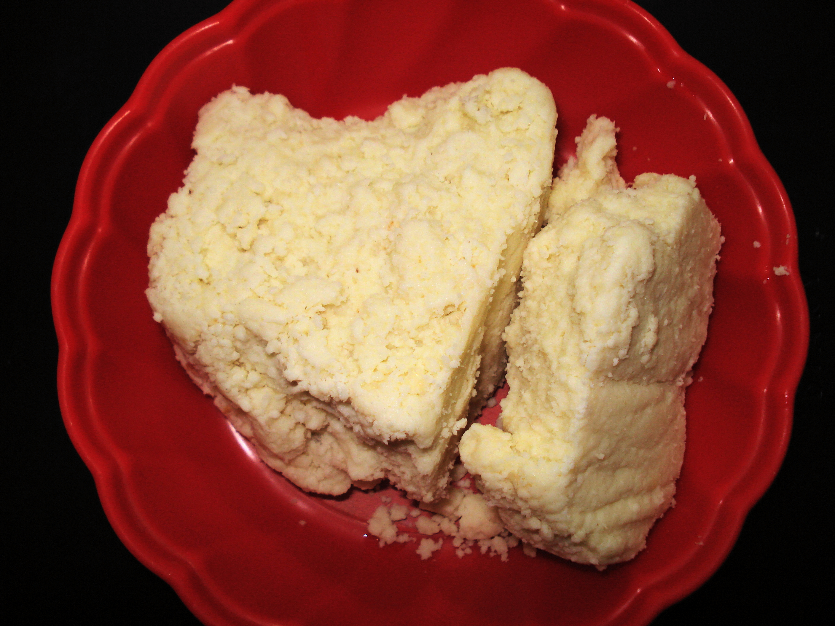 Khoya is prepared by evaporating milk